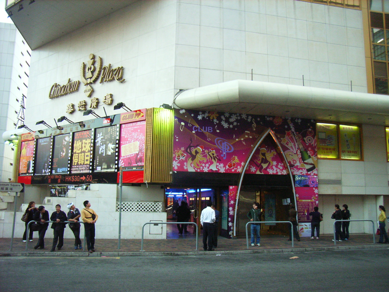 科學館道16號華懋廣場電影院入口